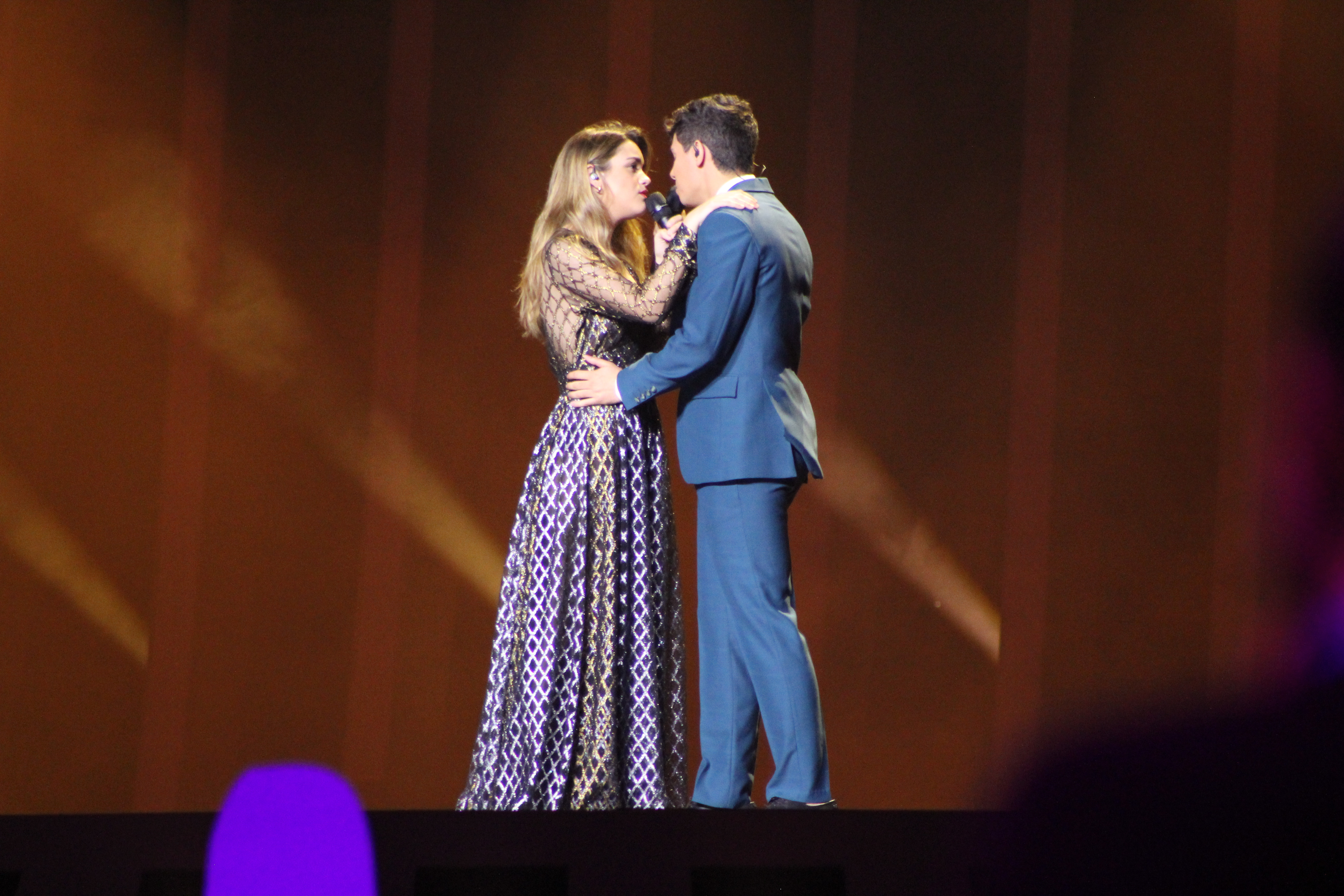 Amaia & Alfred performing at Eurovision 2018